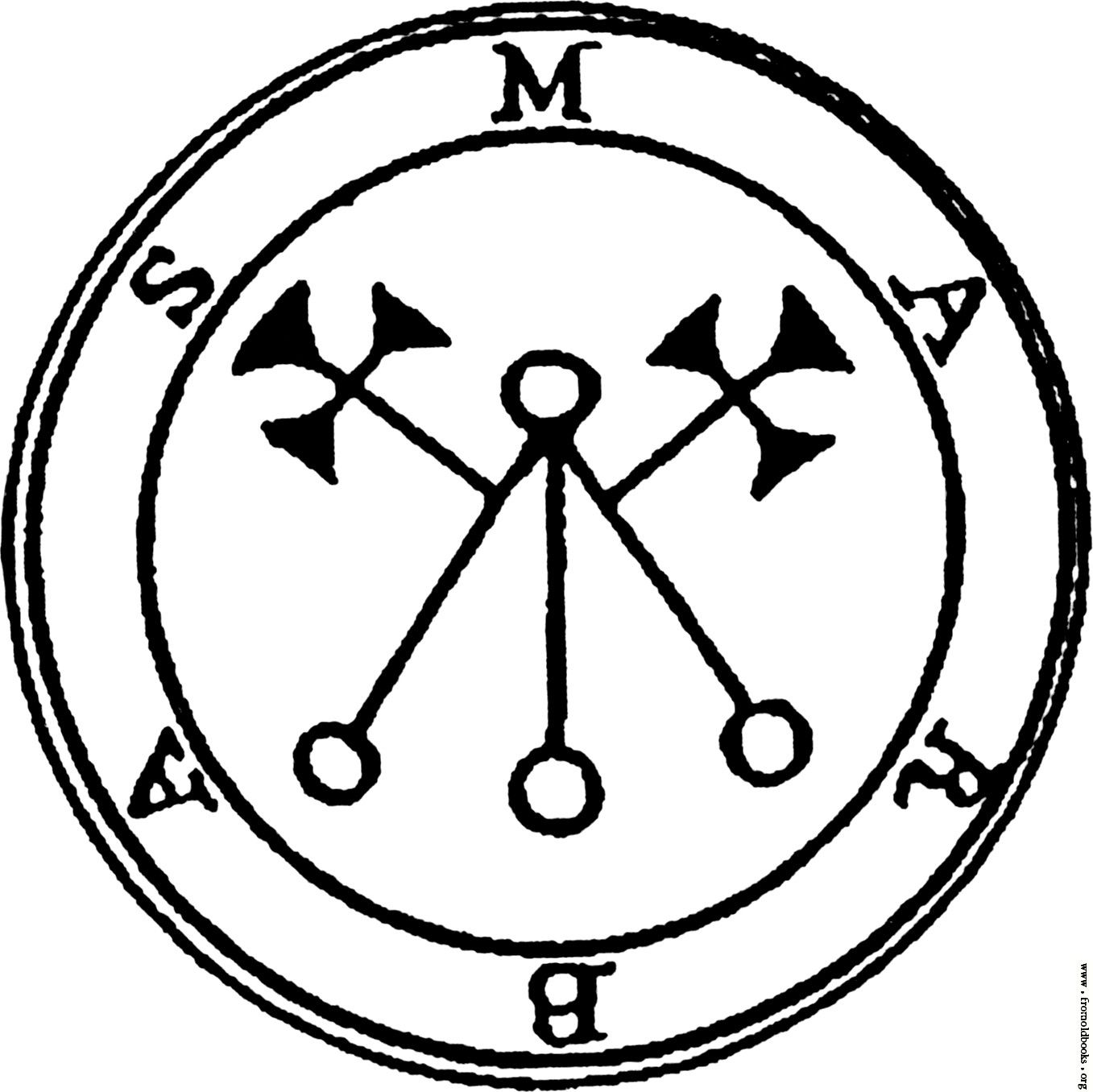 The seal of Marbas